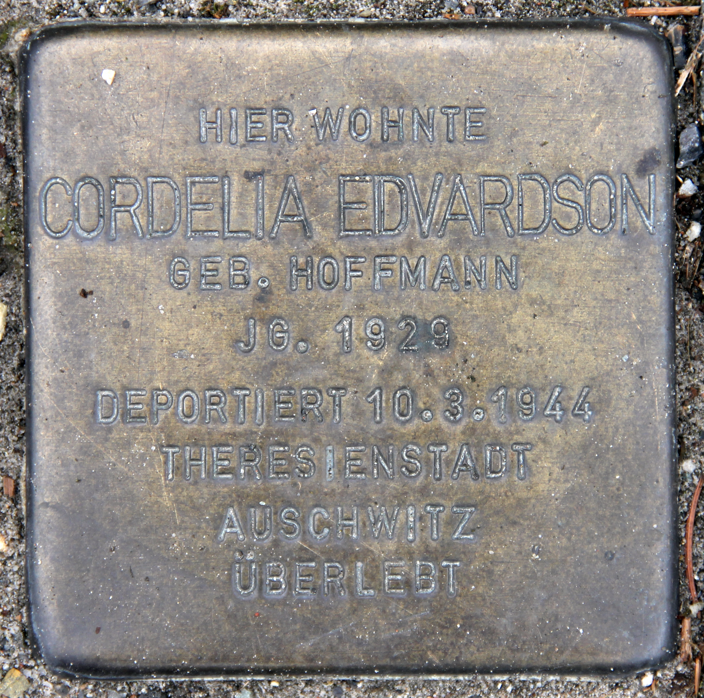 "Stolperstein" (stumbling block), Cordelia Edvardson, Eichkatzweg 33, Berlin-Westend, Germany